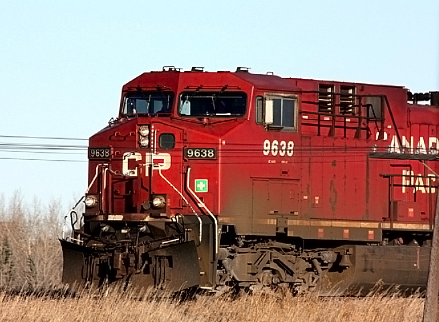 CP rail locomotive pulling freight cars near Regina, Saskatchewan.